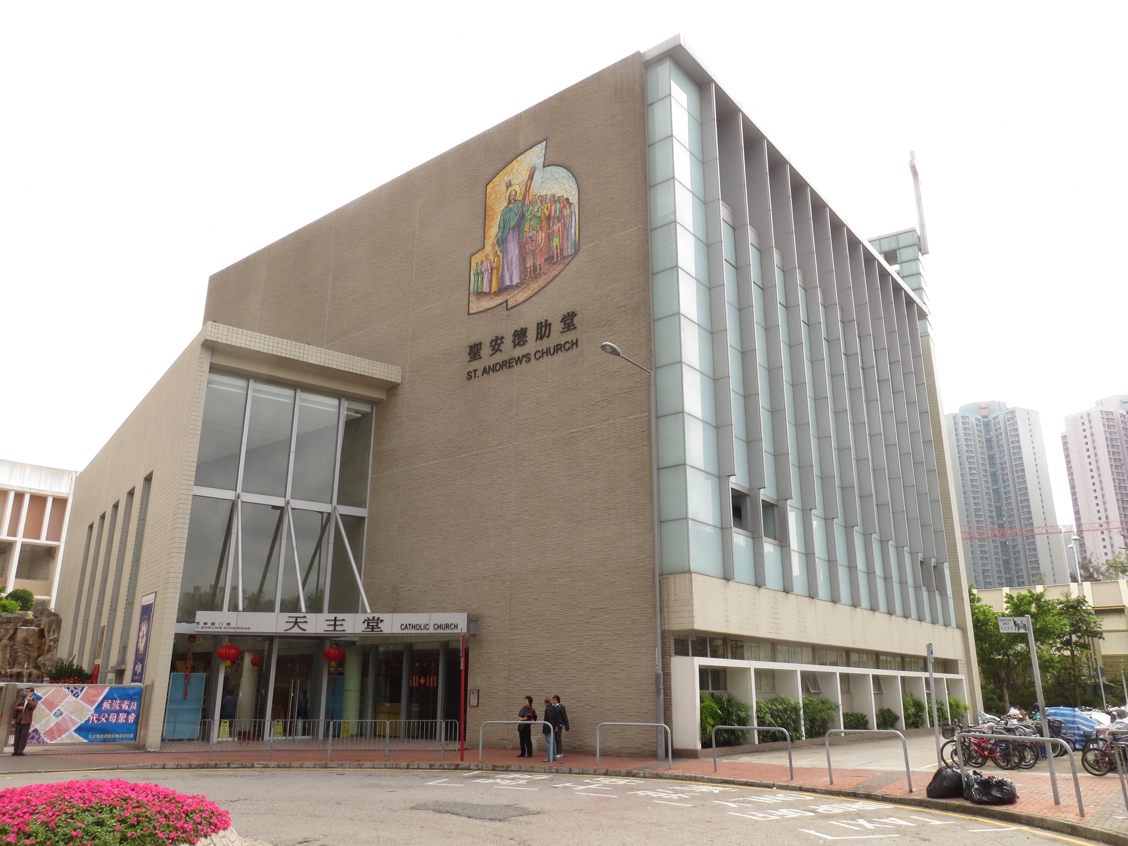 St. Andrew's Church, Tseung Kwan O, Hong Kong.